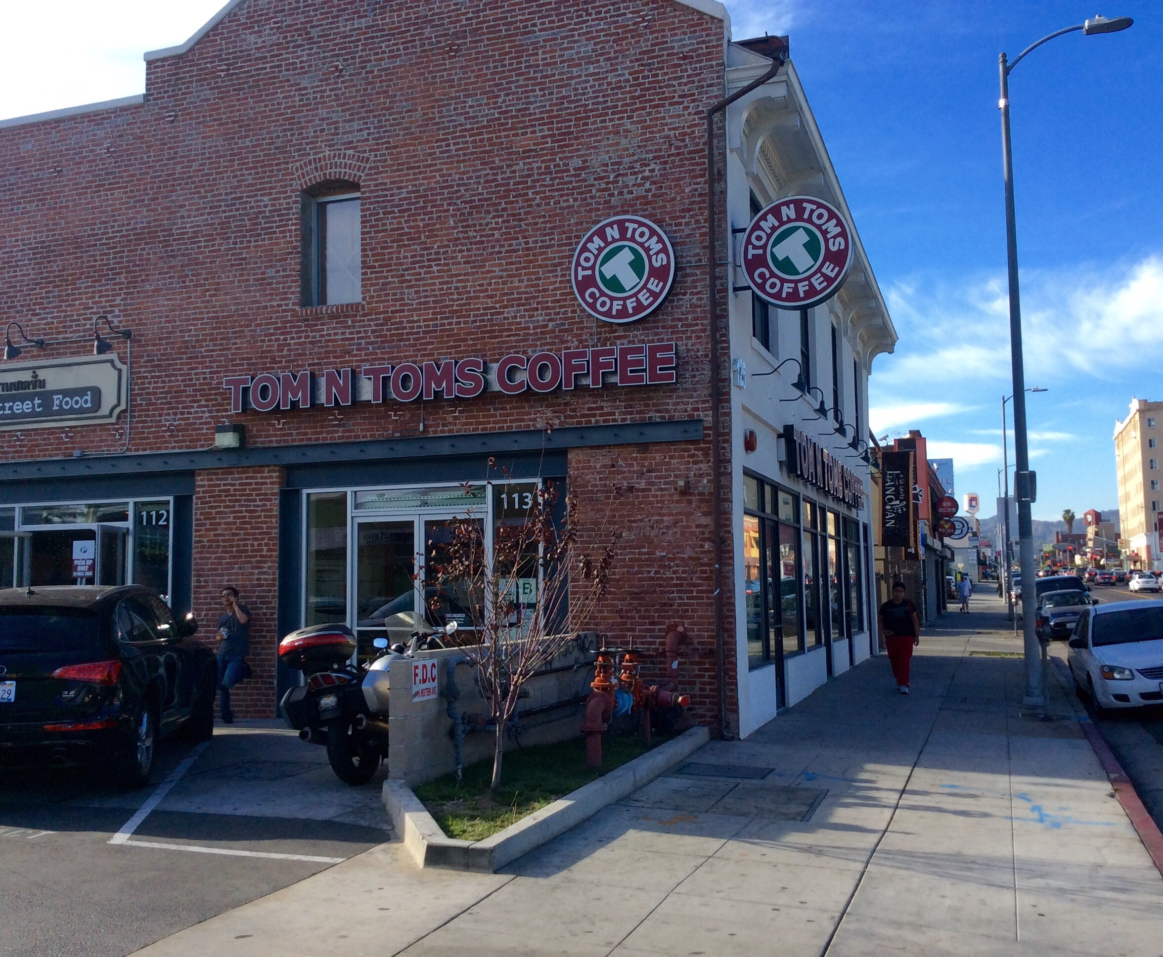 Toms and Toms Cafe in Koreatown, Los Angeles.